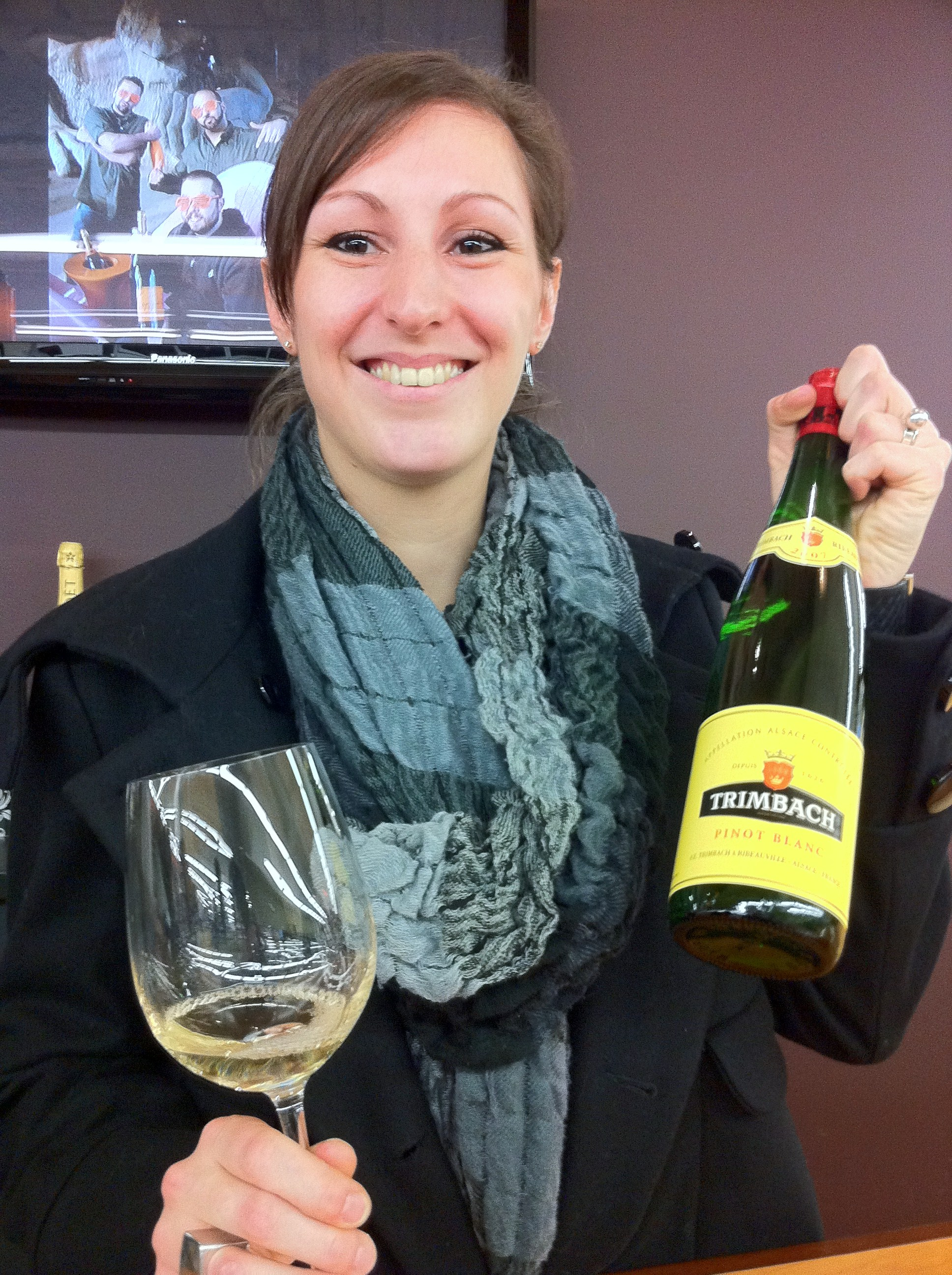 Anne Trimbach of the Alsatian winemaking Trimbach.